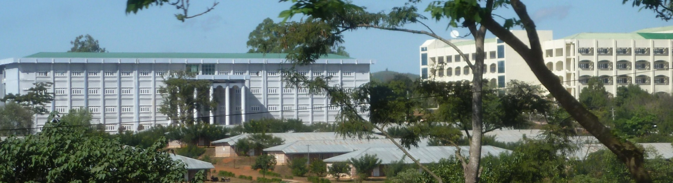 Defence Services Technology Academy halls